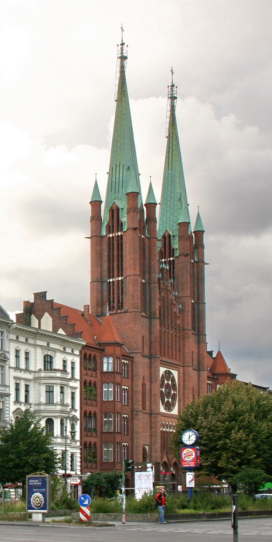 St Boniface in Berlin-Kreuzberg seen from intersection Yorckstr./Mehringdamm